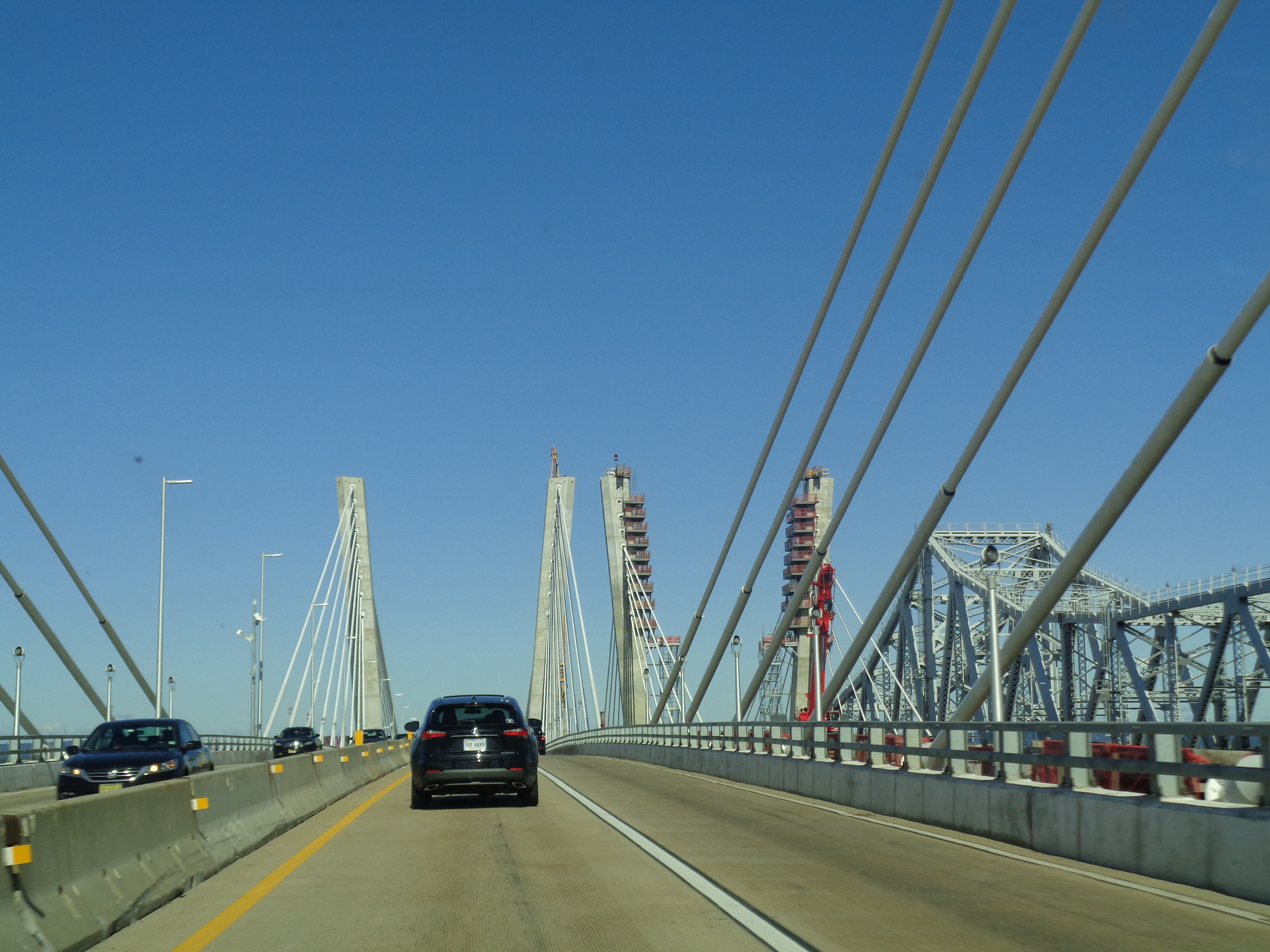 Traveling west over the eastbound span of the new Goethals Bridge between western Staten Island and Elizabeth, New Jersey. The new eastbound span, a cable-stayed bridge, is currently used for bidirectional. The new westbound span under construction and the original truss bridge are visible to the right and far right respectively.